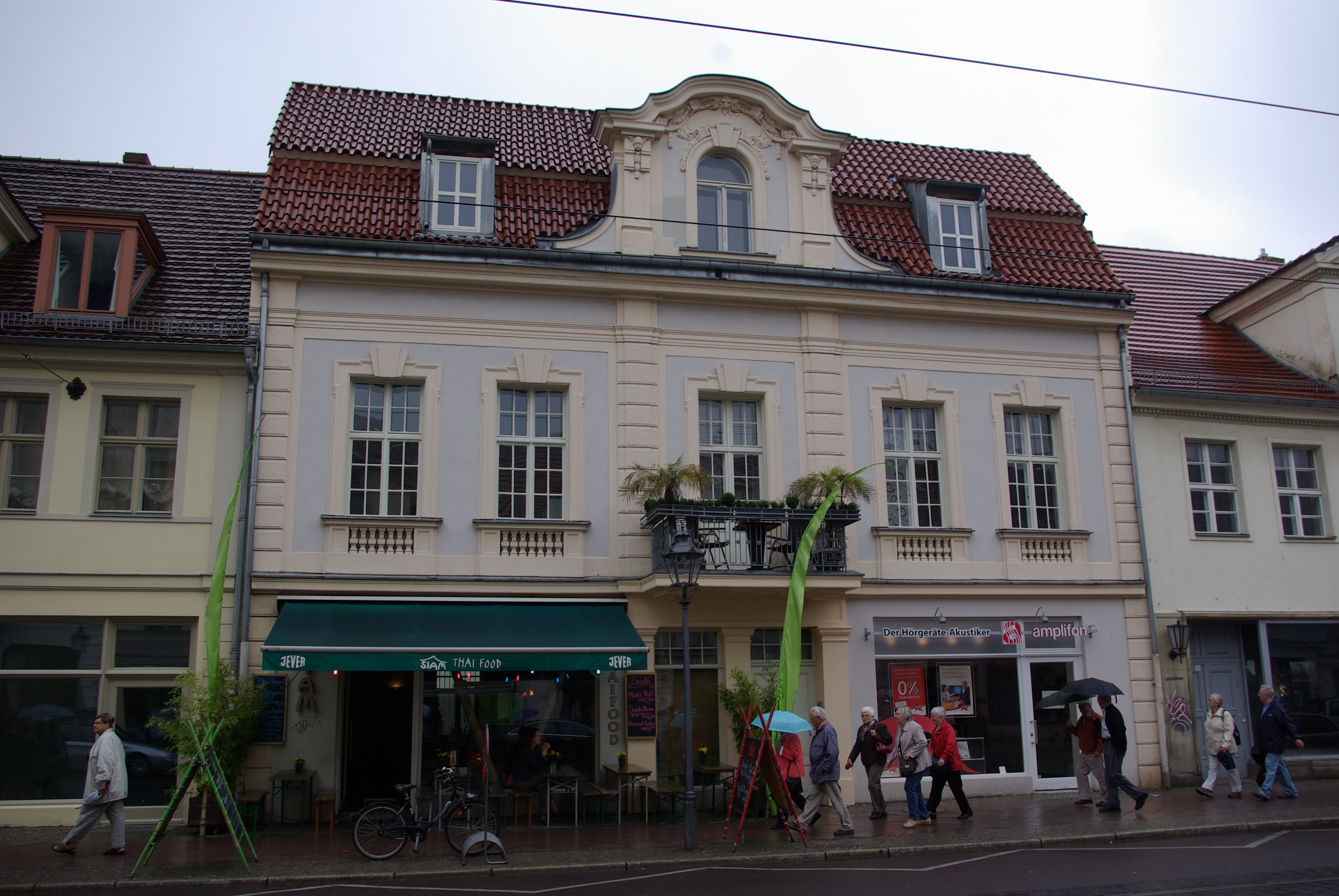 Potsdam in Germany. The house Friedrich-Ebert-Straße 13 is a listed building.